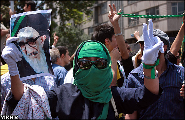 نماز جمعه ۲۶ تیر ۱۳۸۸ به امامت هاشمی رفسنجانی